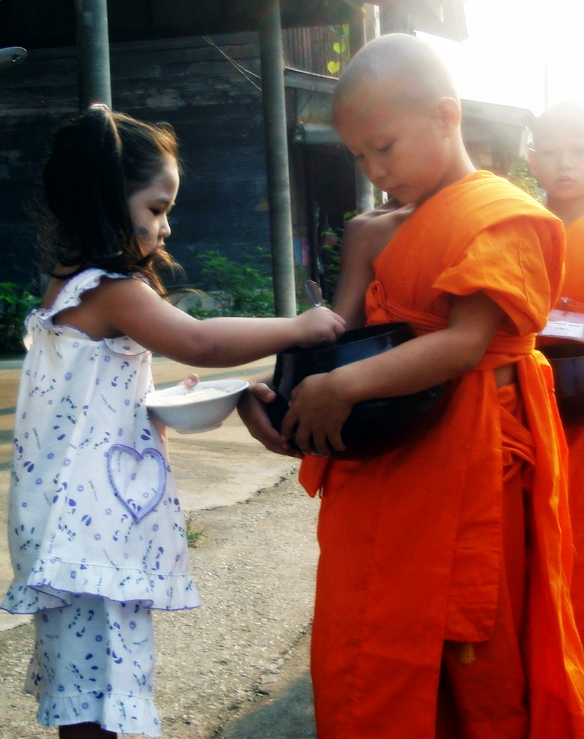 เด็กชาวพุทธกำลังใส่บาตร Buddhist child is puttinging food into the bowl of the Buddhist priest